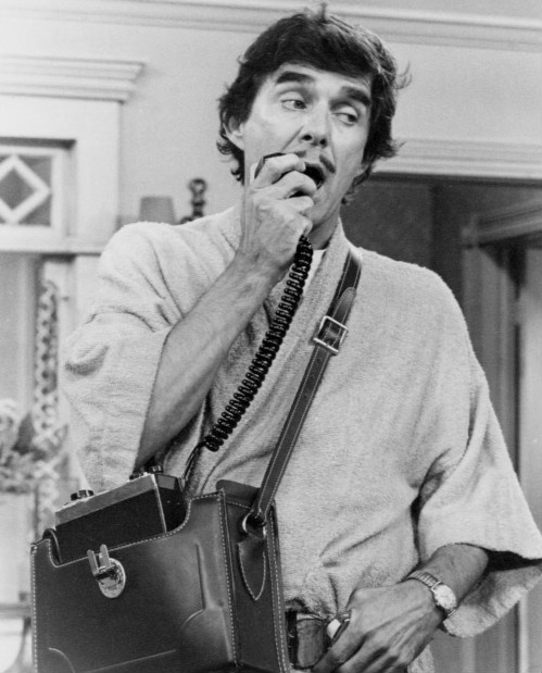 Publicity photo of Pat Harrington, Jr. as Dwayne Schneider from the television show One Day at a Time.